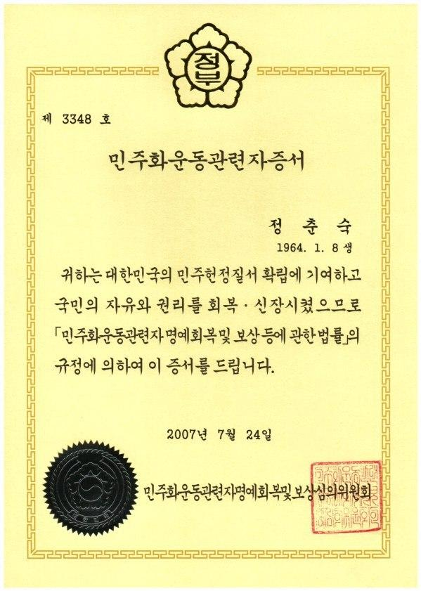 certificate